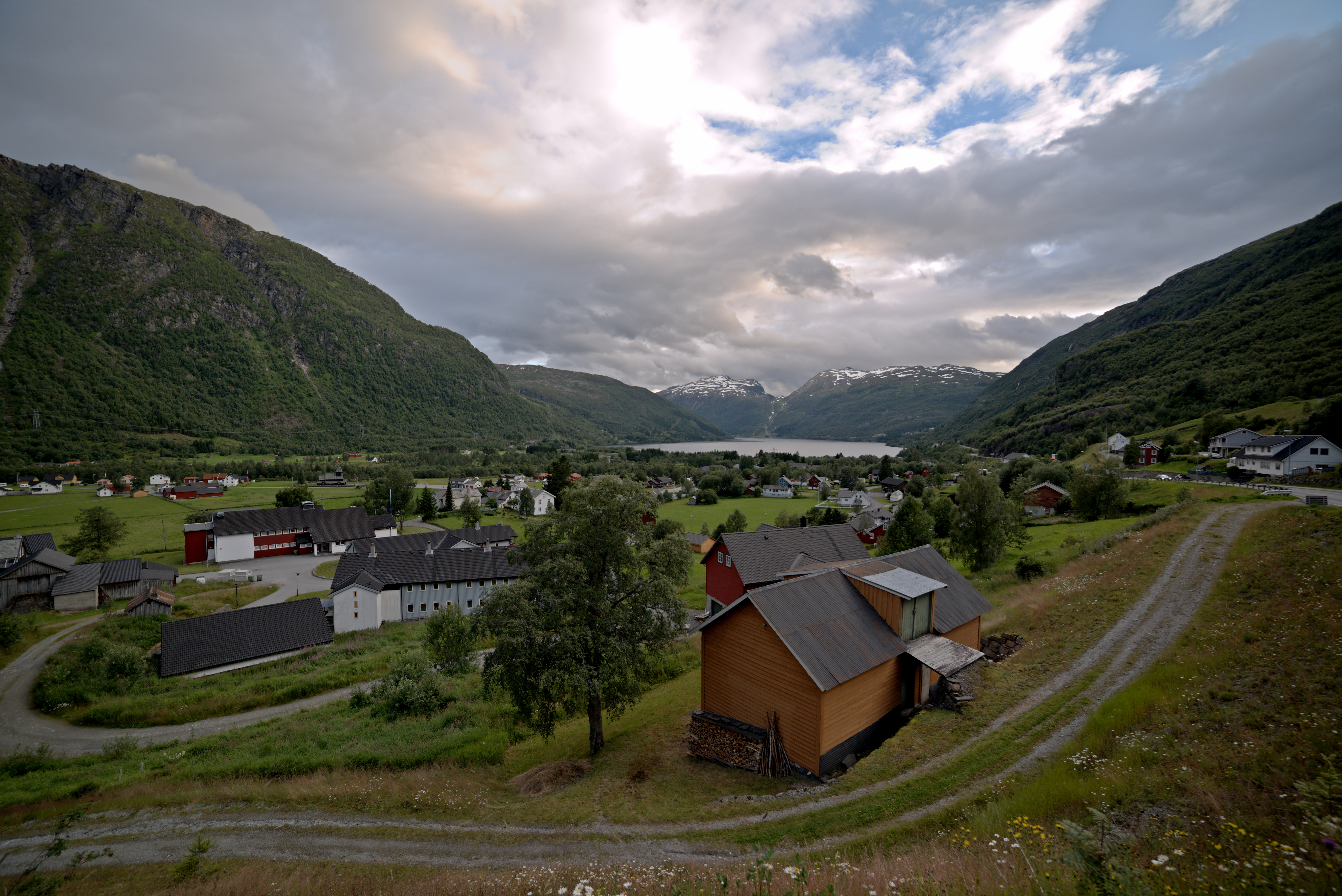 Røldal in Odda municipality with Røldalsvatnet in the background